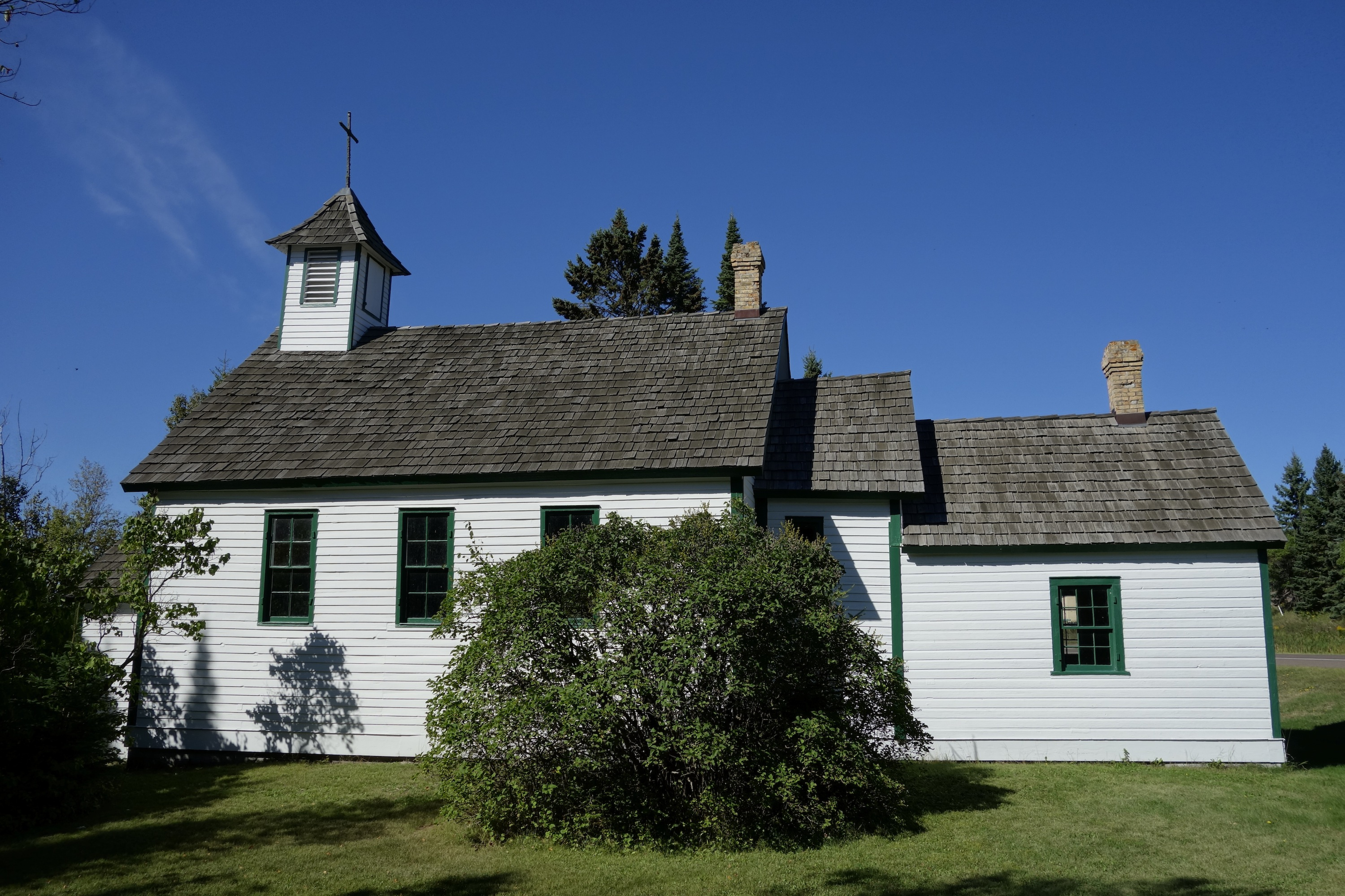 Church of St. Francis Xavier-Catholic